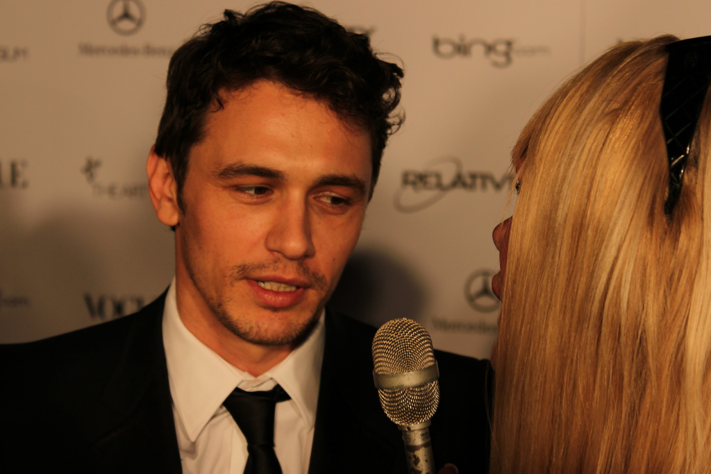 Interview with Oscar nominee James Franco